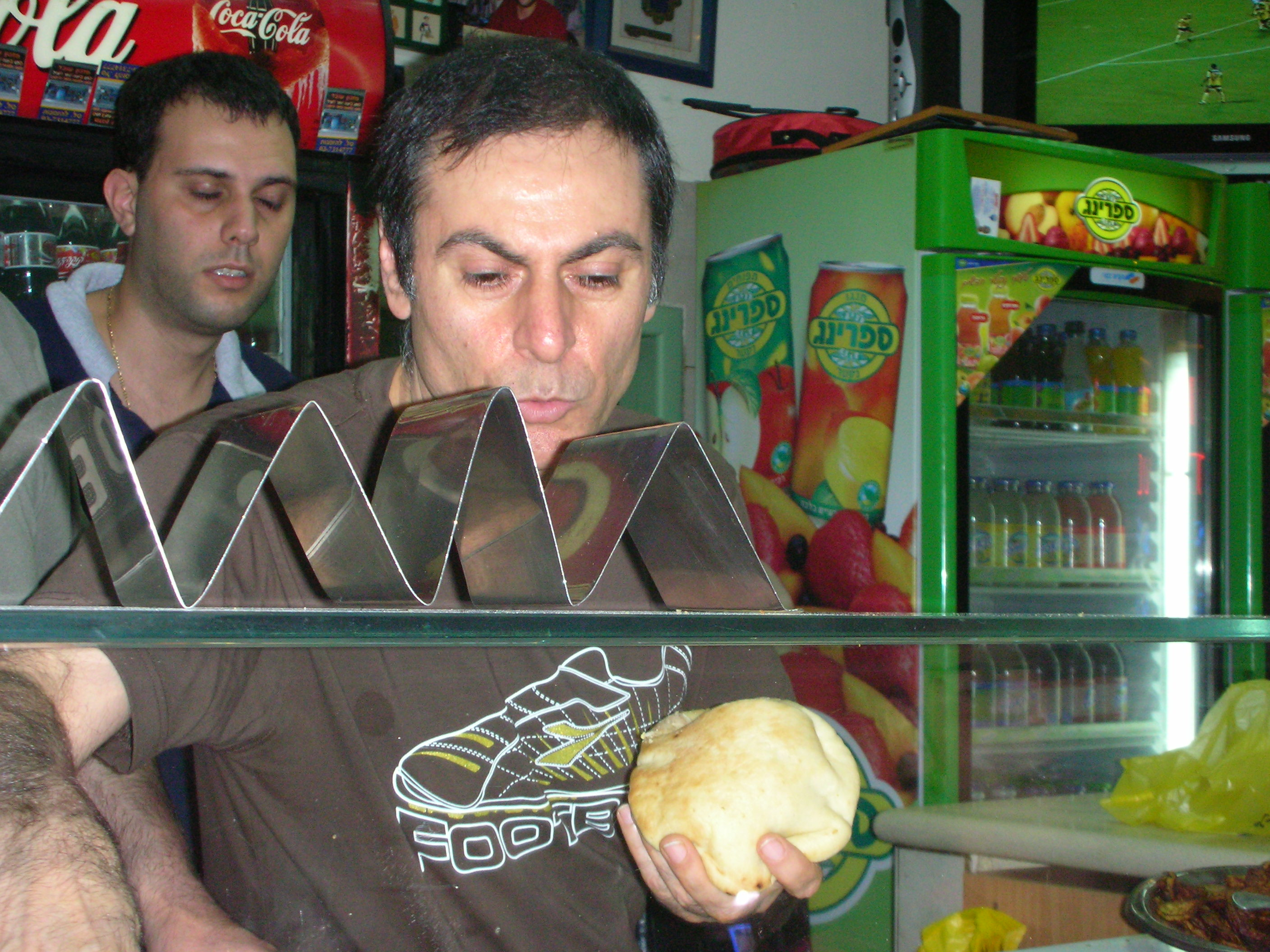 "Ovad's Sabich", a famous restaurant in Giv'atayim.